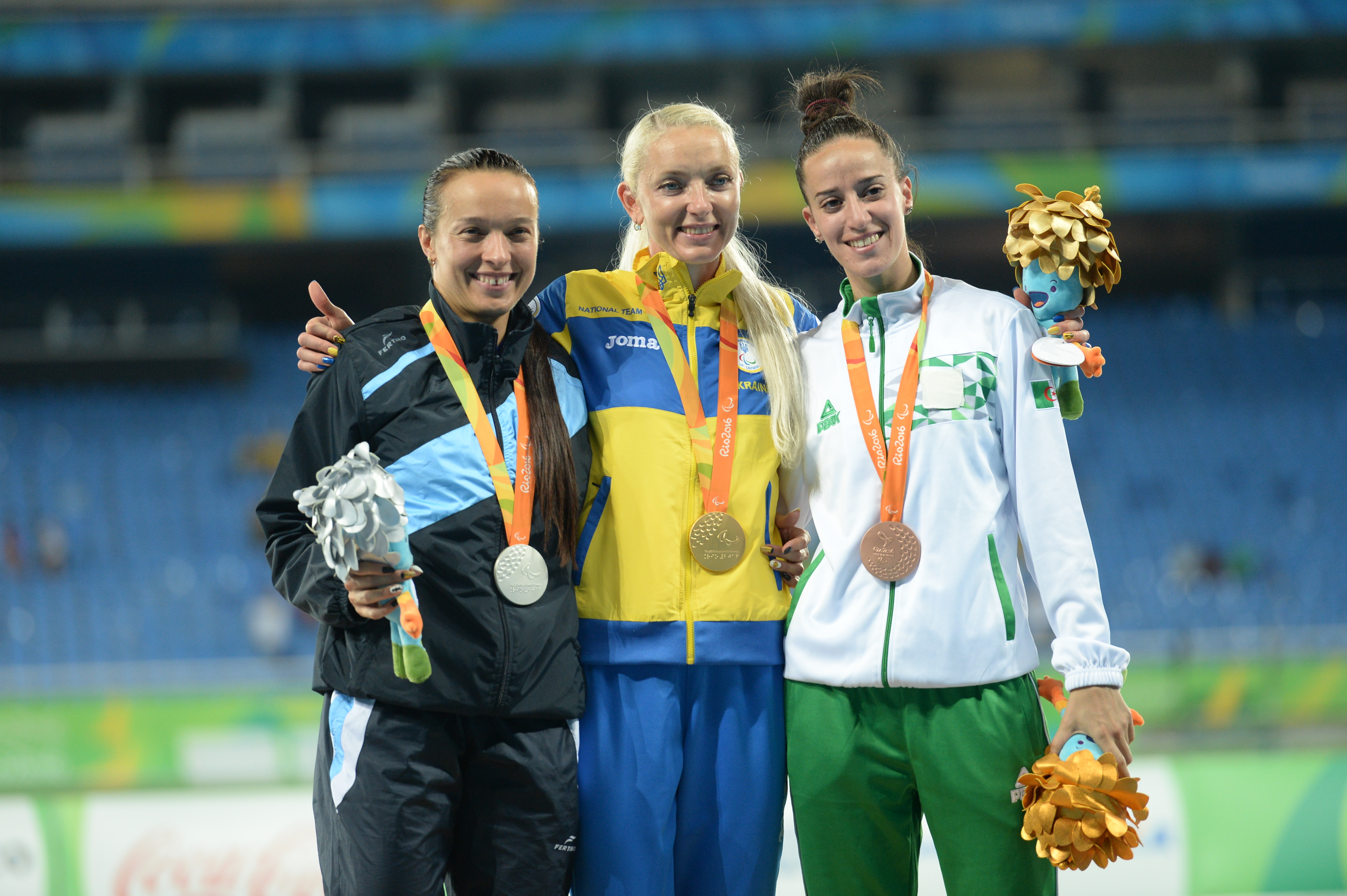 Elena Chebanu. Athletics at the 2016 Summer Paralympics – Women's long jump